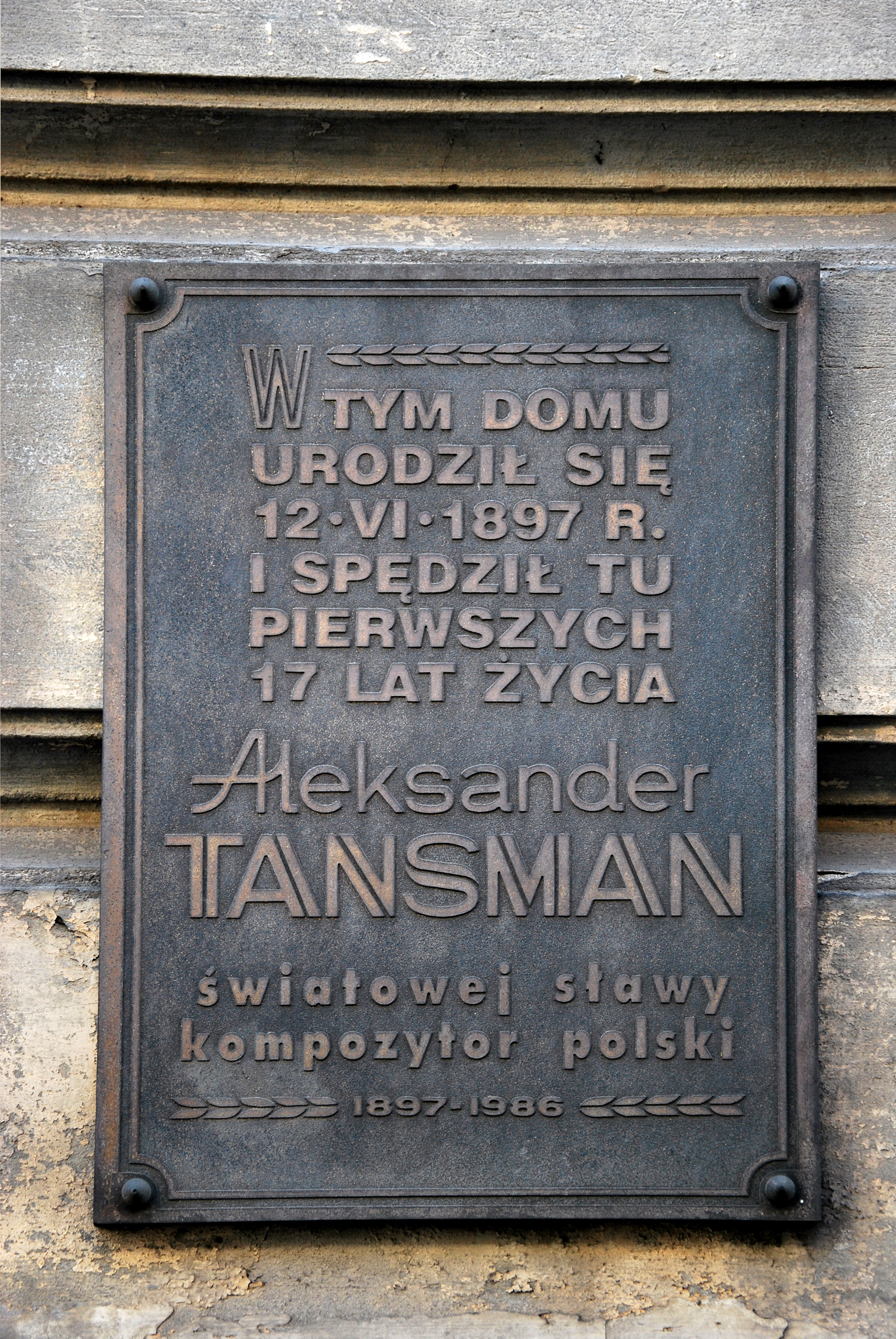 Plaque Alexander Tansman, Łódź 18 Próchnika Street